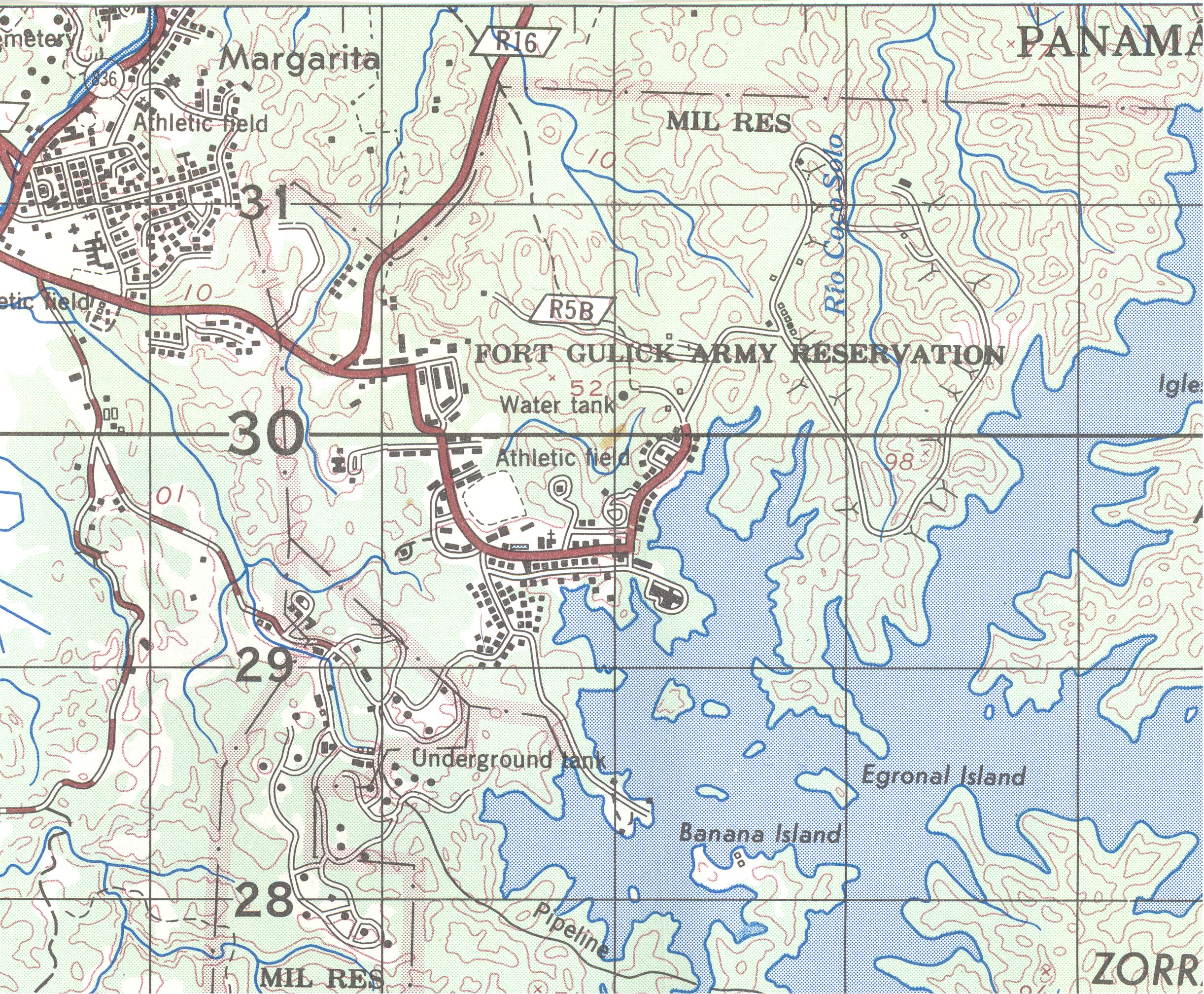 Partial Map of Training with main focus on Fort Gulick in pre-1999 state.